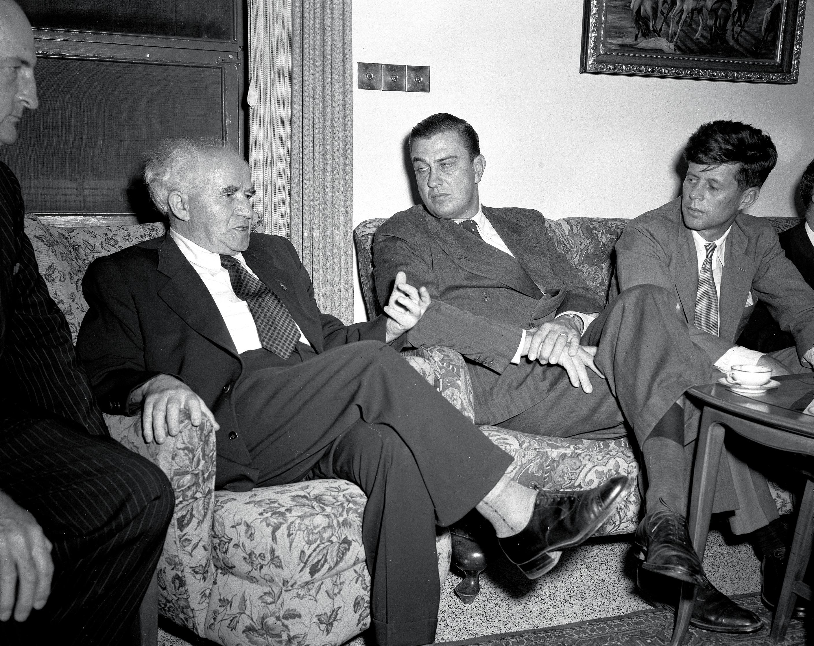 L-R: Prime minister David Ben Gurion f.d. Roosevelt JR. (c) and John F. Kennedy, during their short visit to Israel.